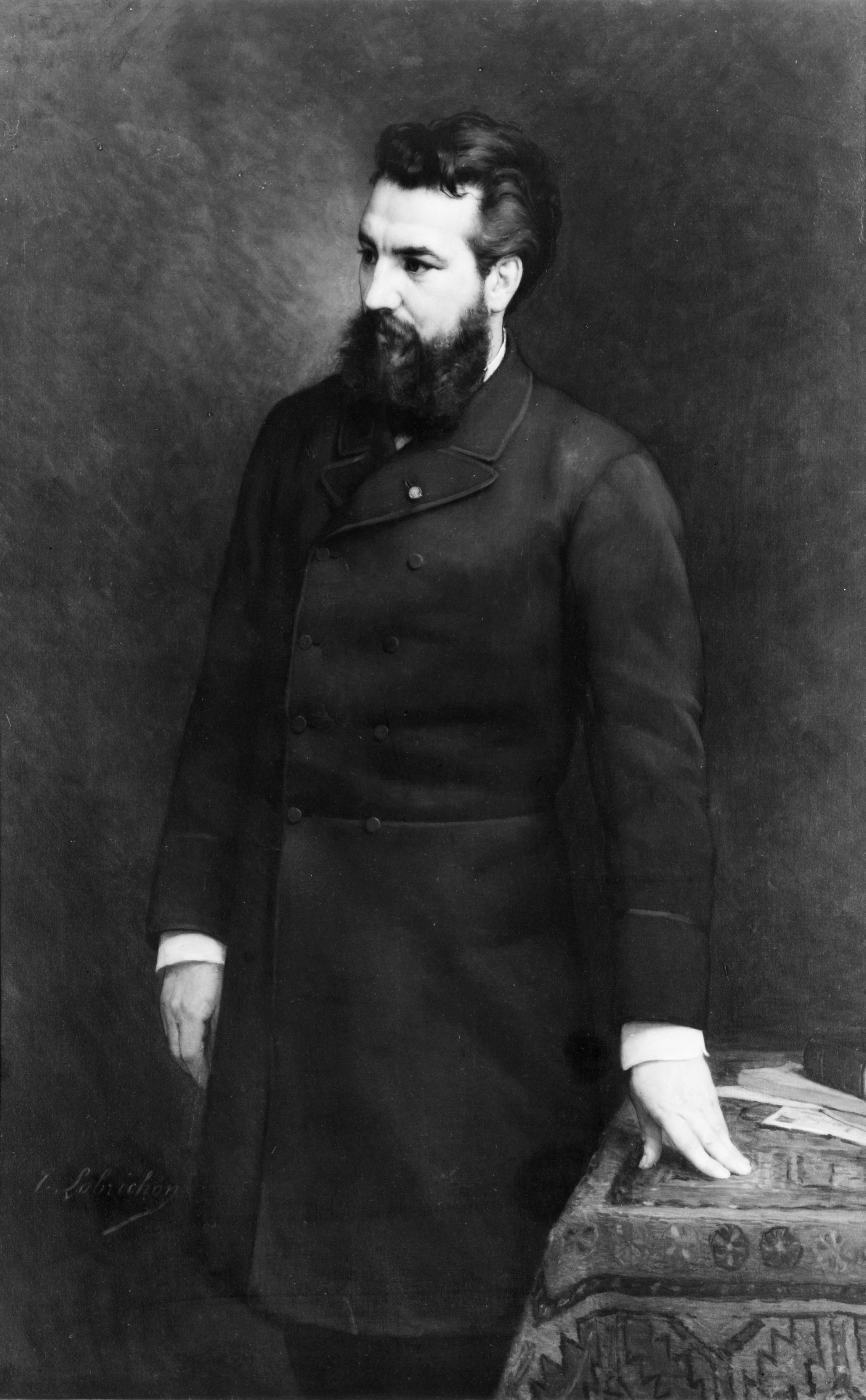 Alexander Graham Bell, three-quarter length portrait, standing, facing left